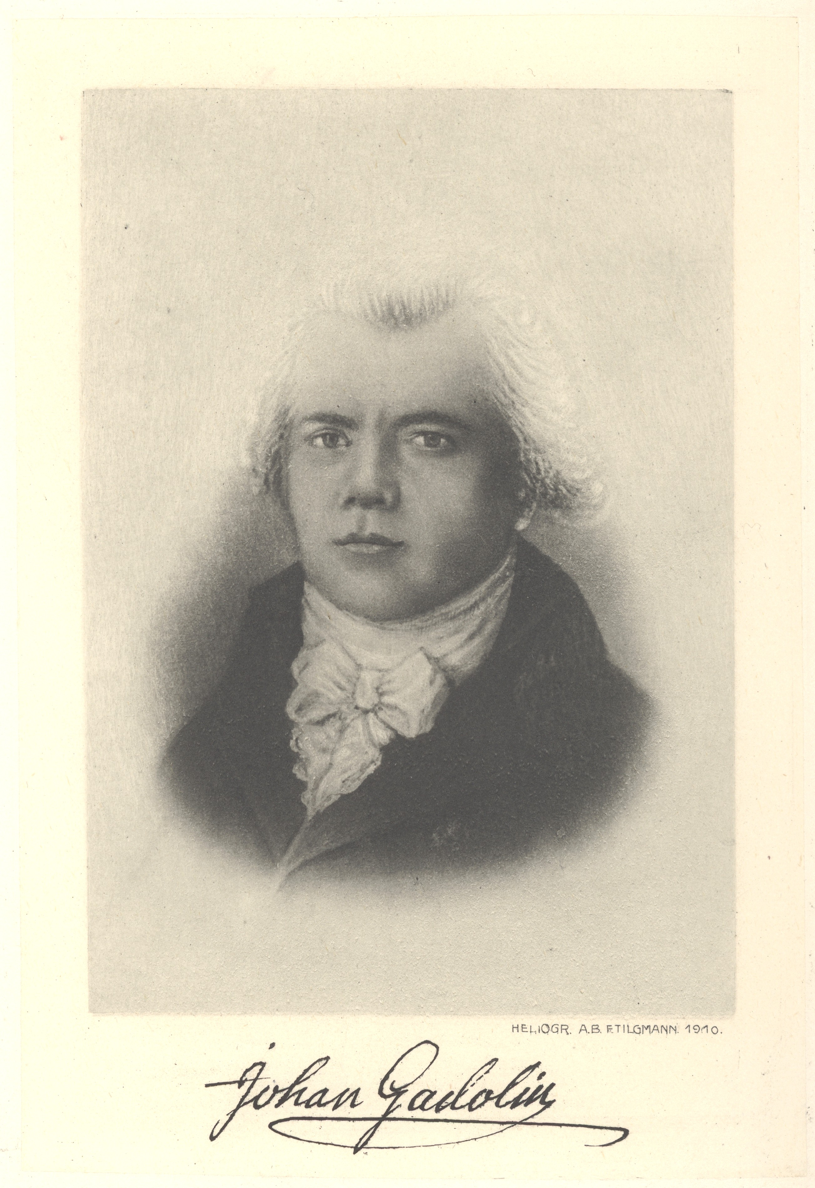 Johan Gadolin (1760 - 1852) finish chemist